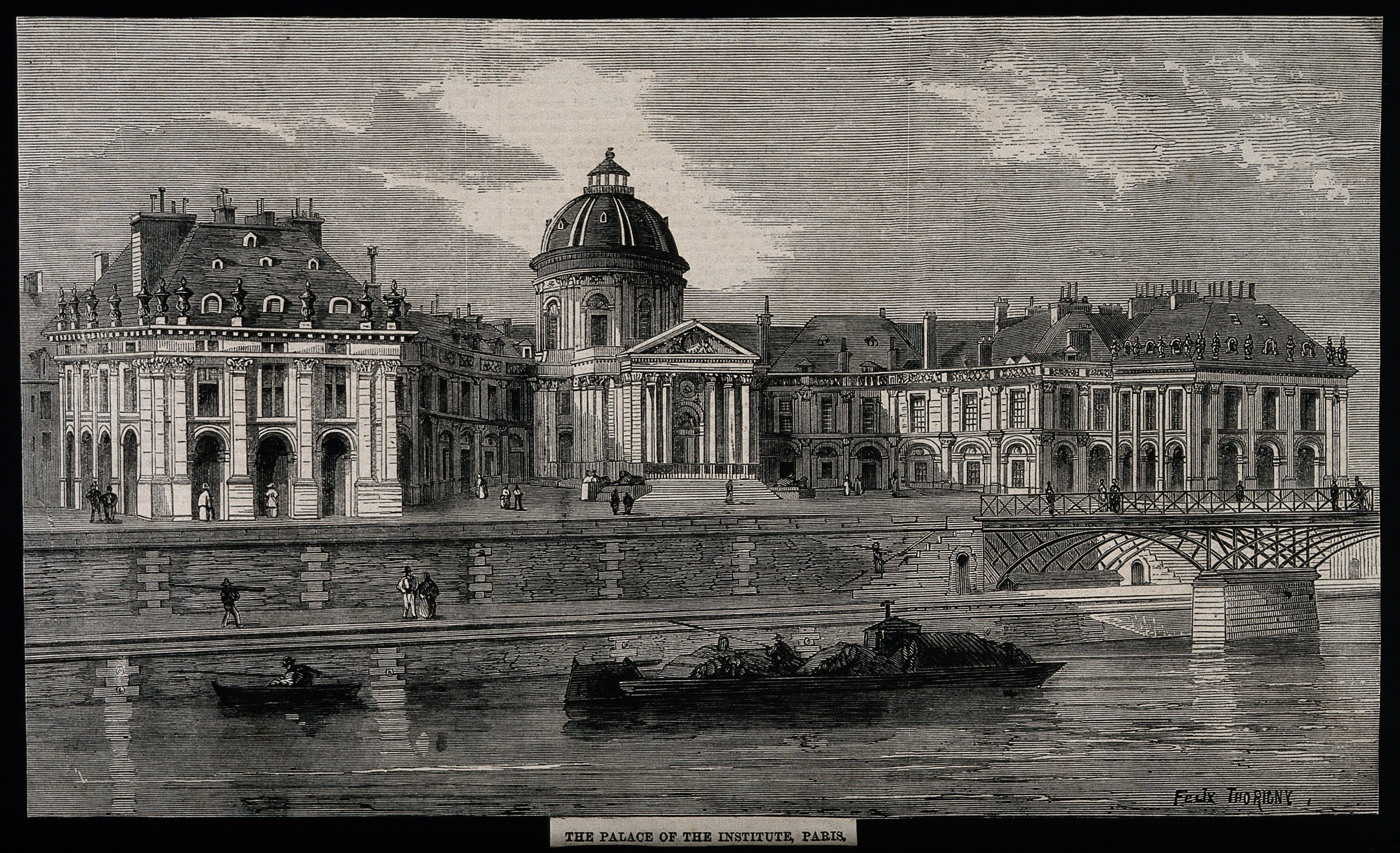 Institut de France, Paris: as seen from the river. Wood-engraving by Felix Thorigny. Iconographic Collections Keywords: Felix Thorigny; Institut de France (Paris)